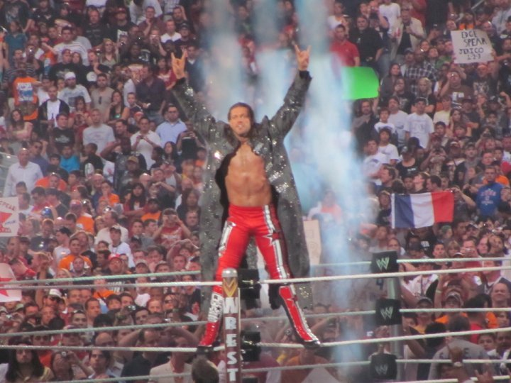 Edge enters the ring and awaits to face Chris Jericho for the World Heavyweight Championship